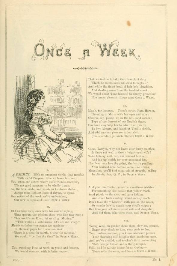 Page 1 of the first issue of Once A Week magazine.